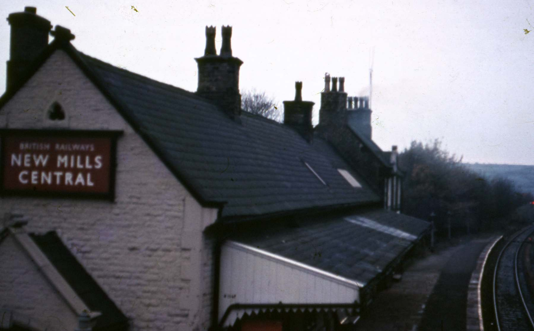 the canopy and sign have changed